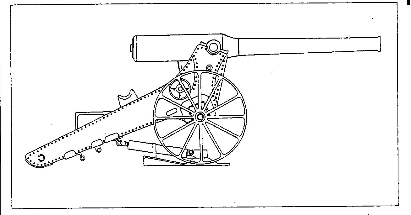 The drawing shows the side of the gun and particularly the trunnion cups, chocks, recoil tube and pivot plate.